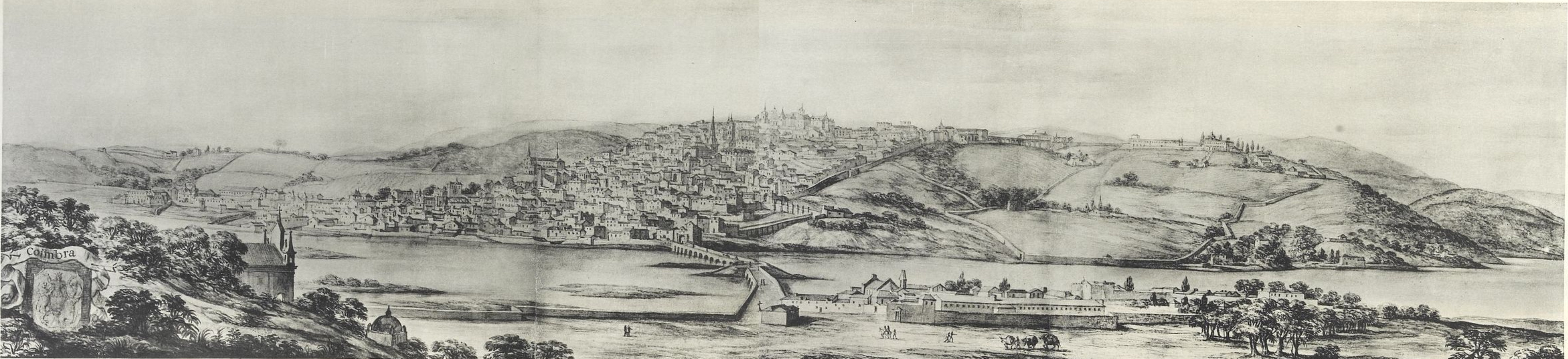 Drawing of Coimbra done by Pier Maria Baldi ni 1669